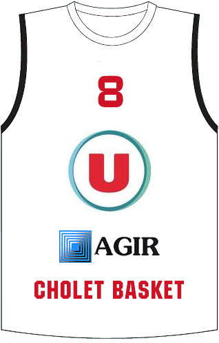 CB_home_jersey